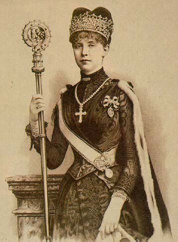 Archduchesse Margarete Sophie of Austria 1870-1902, Duchesse of Württemberg, Wife of Duke Albrecht von Württemberg 1865–1939